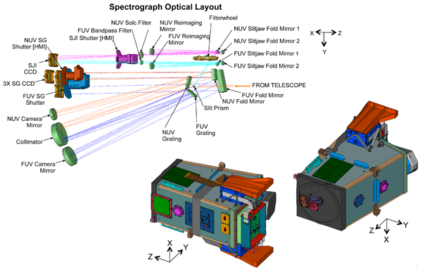 IRIS spectrograph assembly